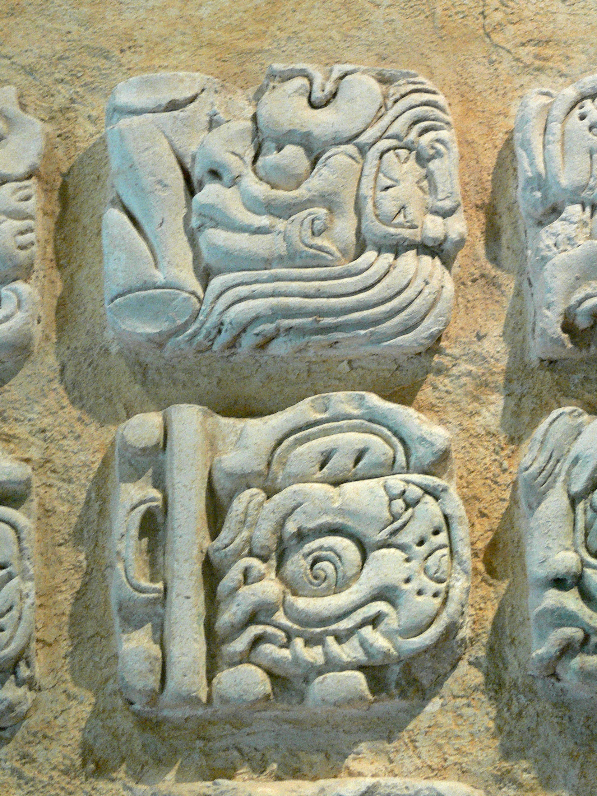 Palenque ( Chiapas ) - Museo del sitio. Maya glyphs